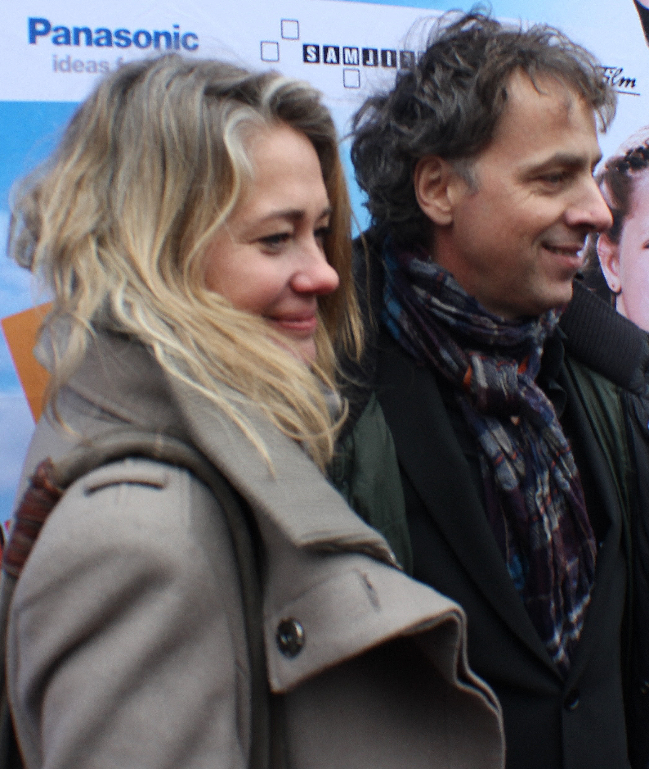 SamFilm GmbH (Andreas Ulmke-Smeaton and Ewa Karlström) - A GmbH somethink like a Limited - took the picture on the schleswig premiere of Famous Five